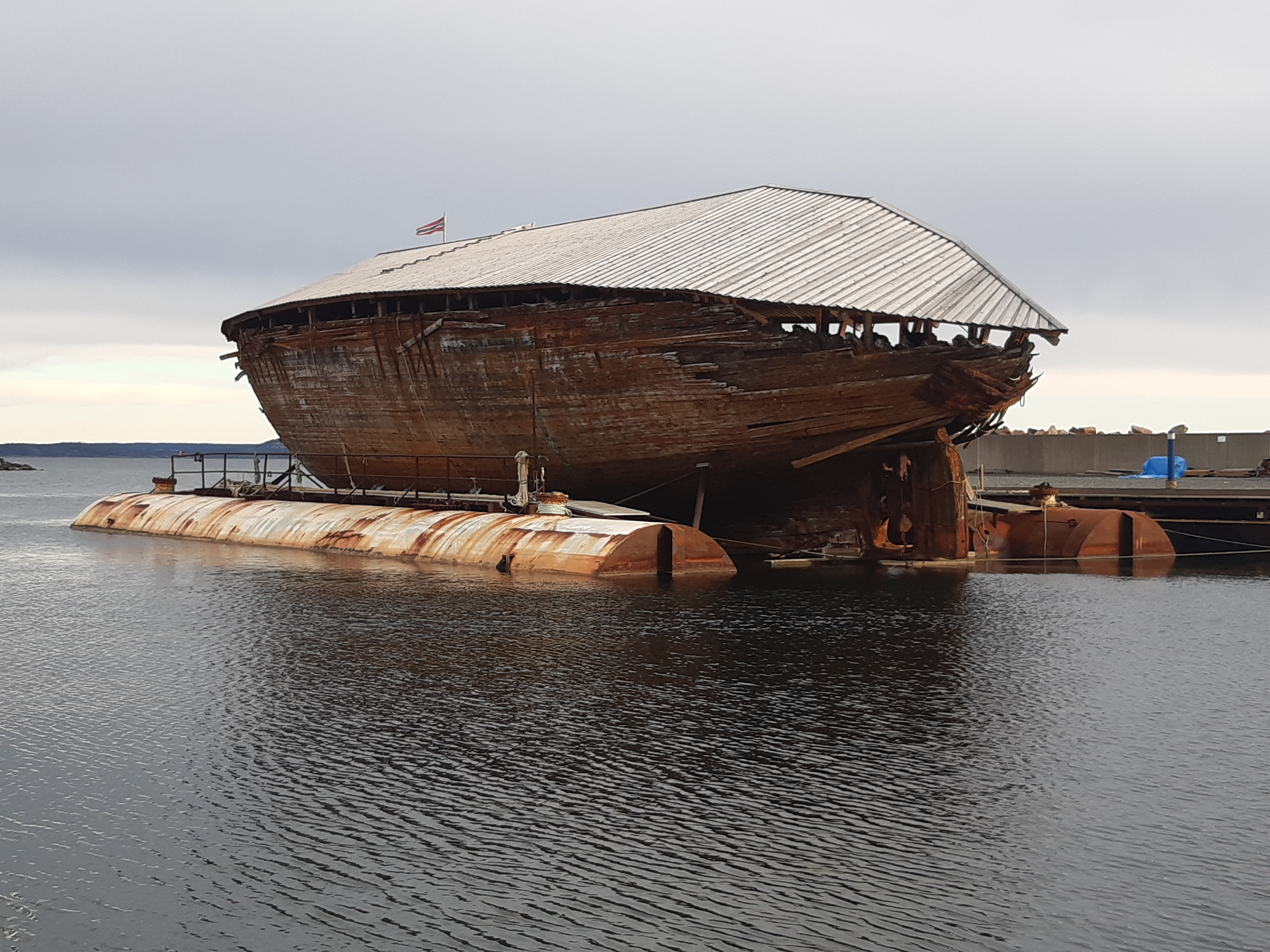 Amundsen's ship Maud pictured at Sagene just outside of the town Tofte in Asker, Norway, where she is undergoing restauration.